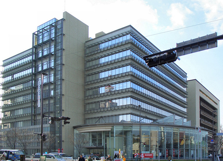 Kokurakita-ku Ward Government Office - The eastern wing, completed in 1998 and designed by Kume Sekkei Co. Ltd. (久米設計), is in the foreground